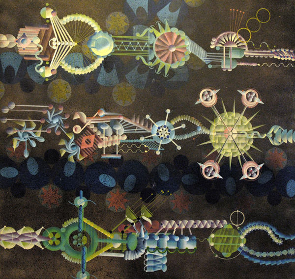 Victor Ash, Serie Rayons 1, spray paint on canvas 150 x 120 cm. 1993.